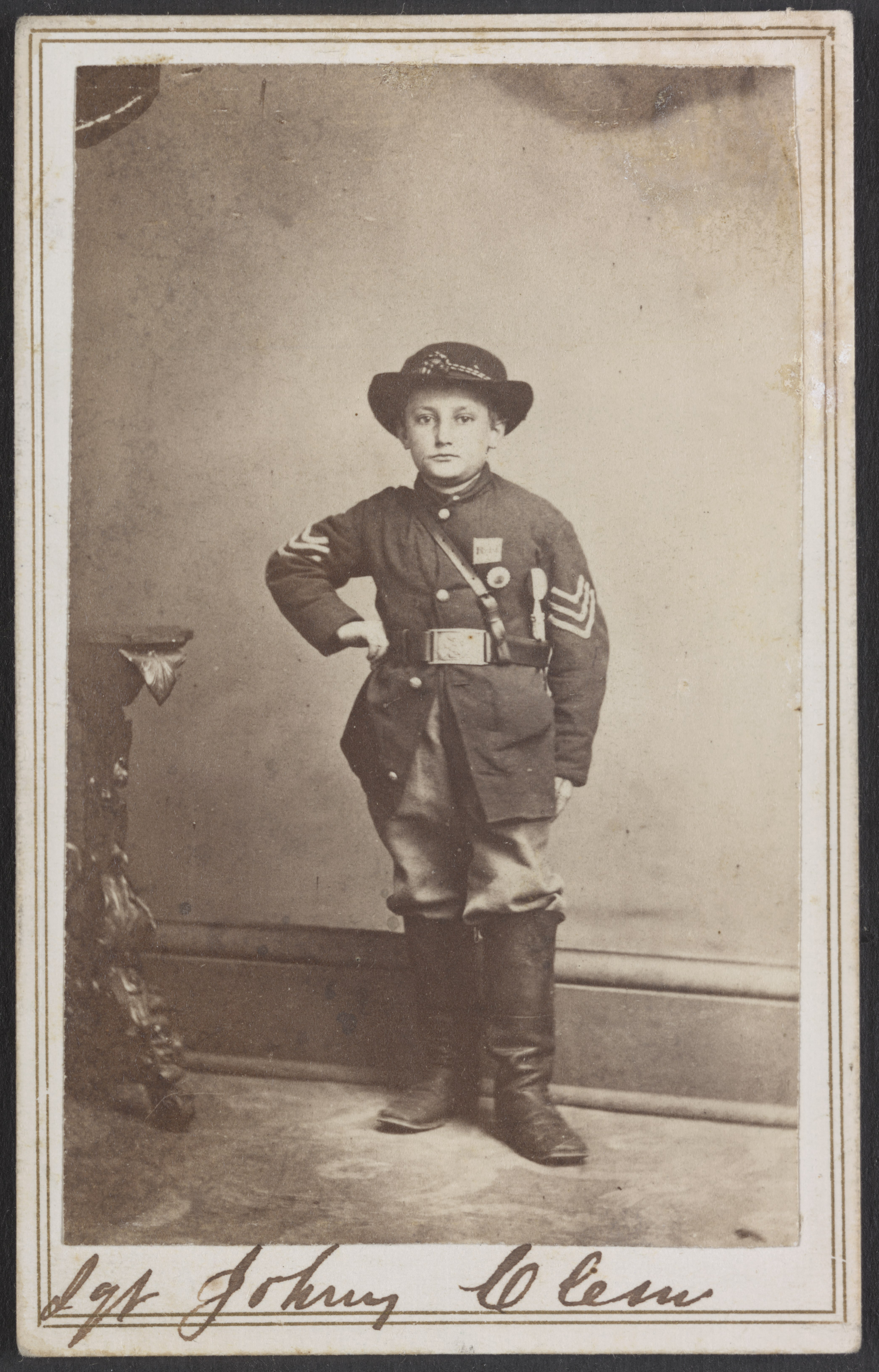 Title: Sgt. Johnny Clem / Schwing & Rudd, photographers, Army of the Cumberland. Abstract/medium: 1 photographic print on carte de visite mount : albumen ; 10.0 x 6.2 cm.